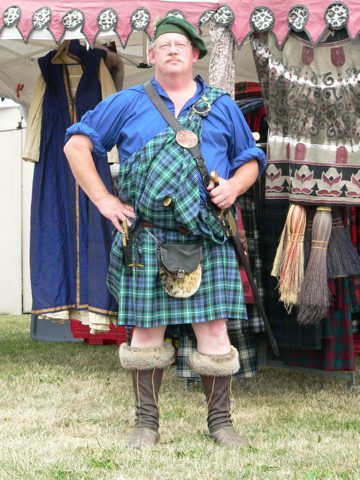 In this front view, one of the merchandise vendors at the 2007 Skagit Valley Highland Games models a modern example of the belted plaid. The belted plaid was the forerunner of the modern kilt and was common in the Highlands of Scotland from the late 16th century until the mid 17th century. The plaid in the photograph shows the modern-day Lamont pattern. In historical times, the patterns in use were varied and depended on the local weaver. Clan tartan patterns did not come into existence until much later. See Image:Belted_plaid_07SV_402.jpg for a rear view.